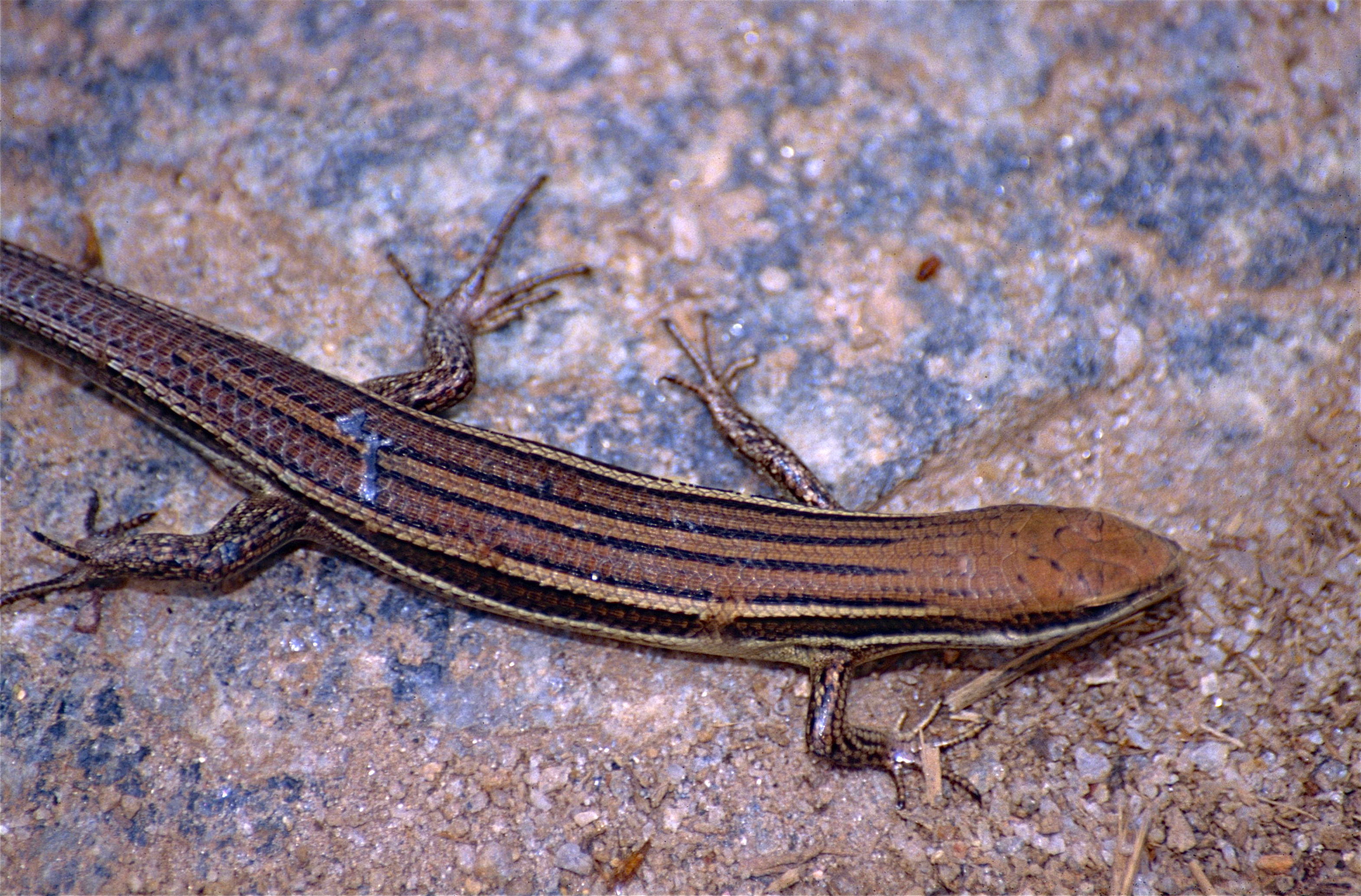 Analamazaotra Reserve, Perinet, MADAGASCAR Scanned Slide from 1998